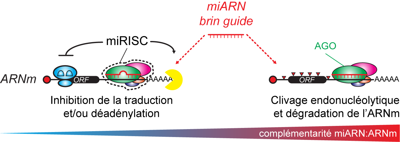 miRNAs have two ways of post-transcriptional repression of gene expression according to miRNA:mRNA degree of complementary, either through inhibition of translation or mRNA degradation.